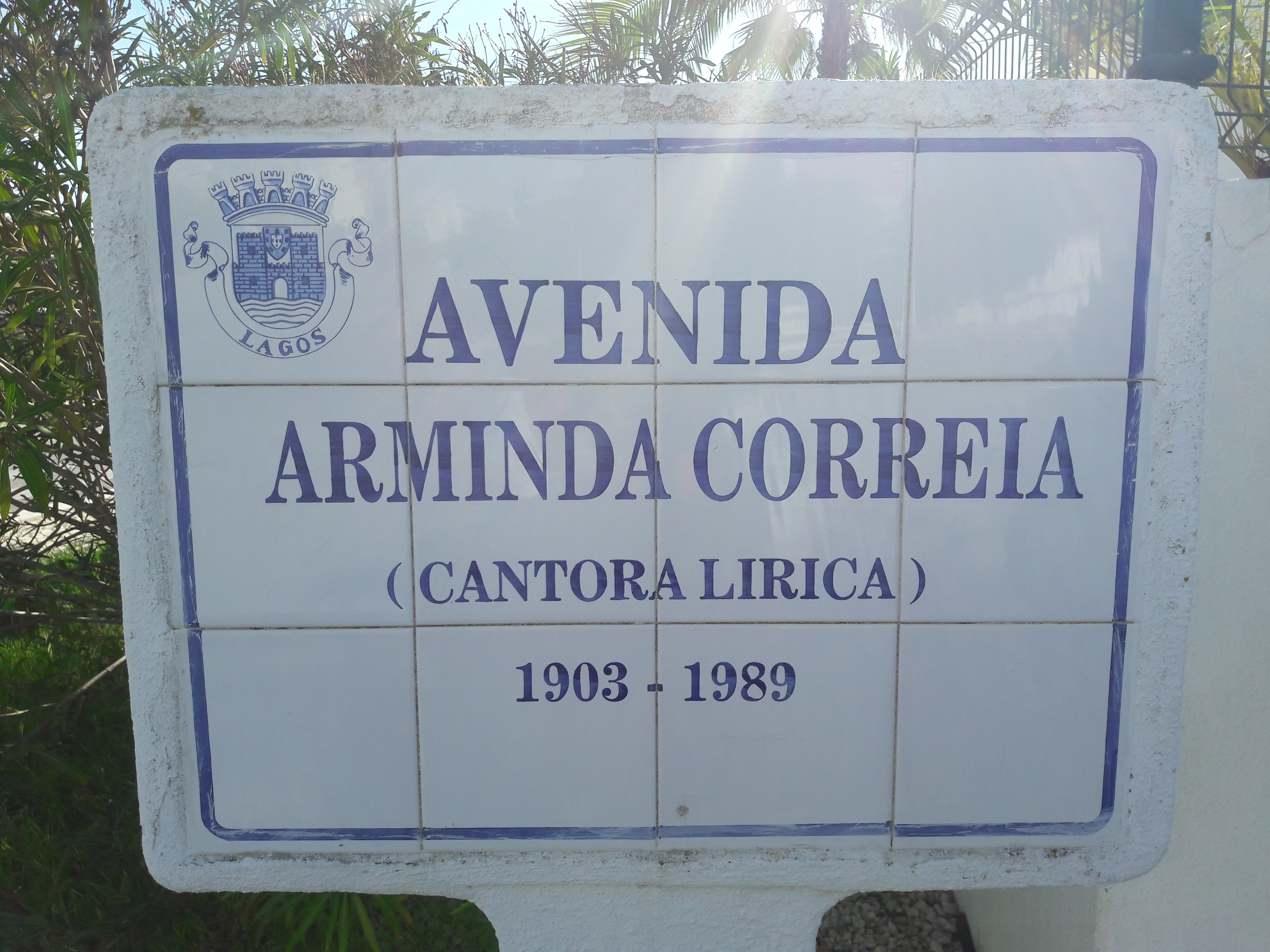 Street sign of Avenida Arminda Correia, in the city of Lagos, in southern Portugal.